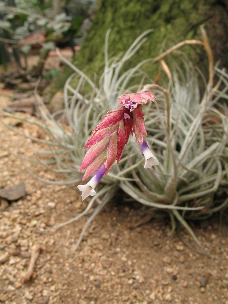 Tillandsia oblivata, in cultivation at the Botanical Garden of Heidelberg, Germany.